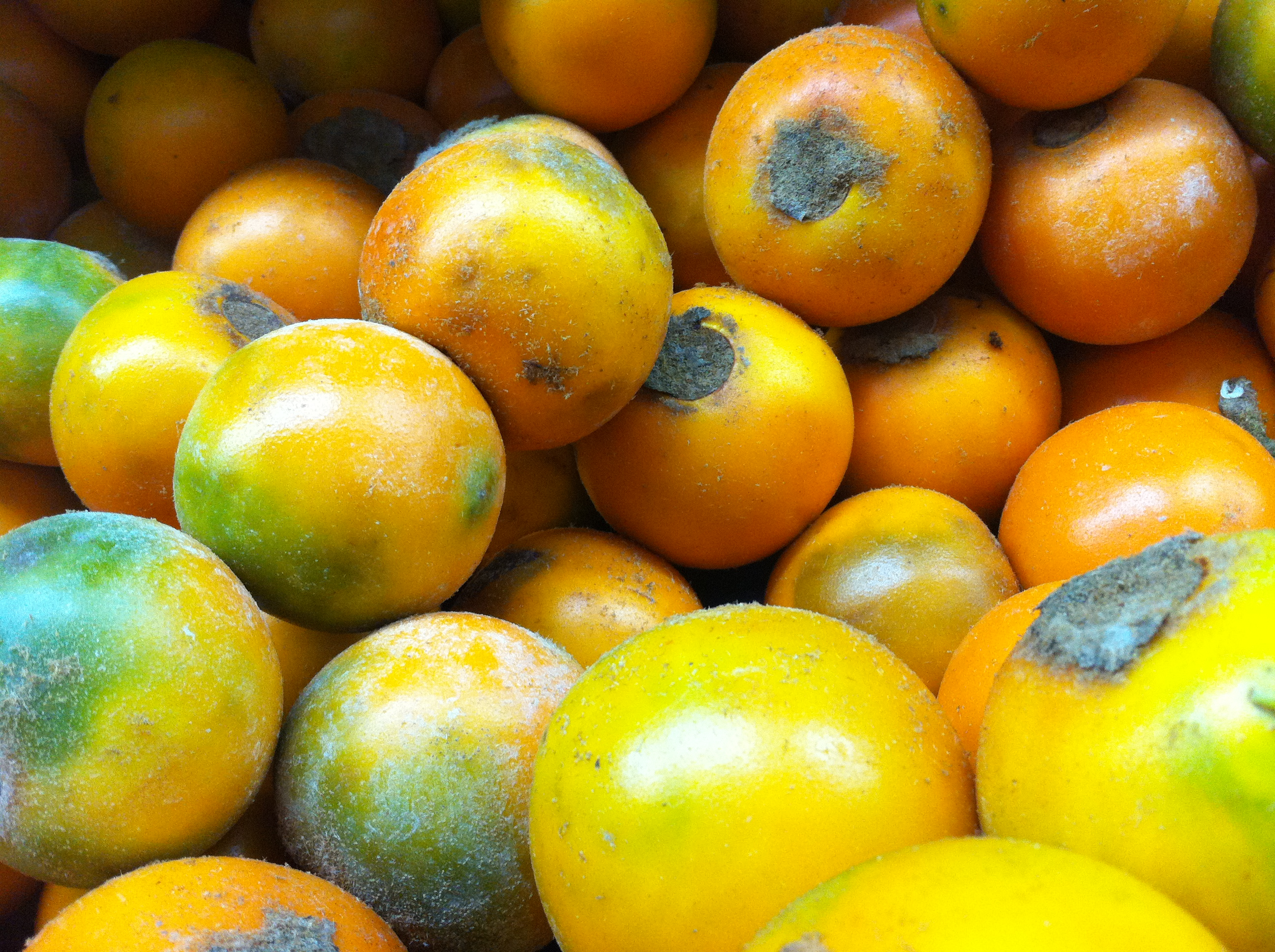 Lulo fruit in Colombian supermarket in Florencia